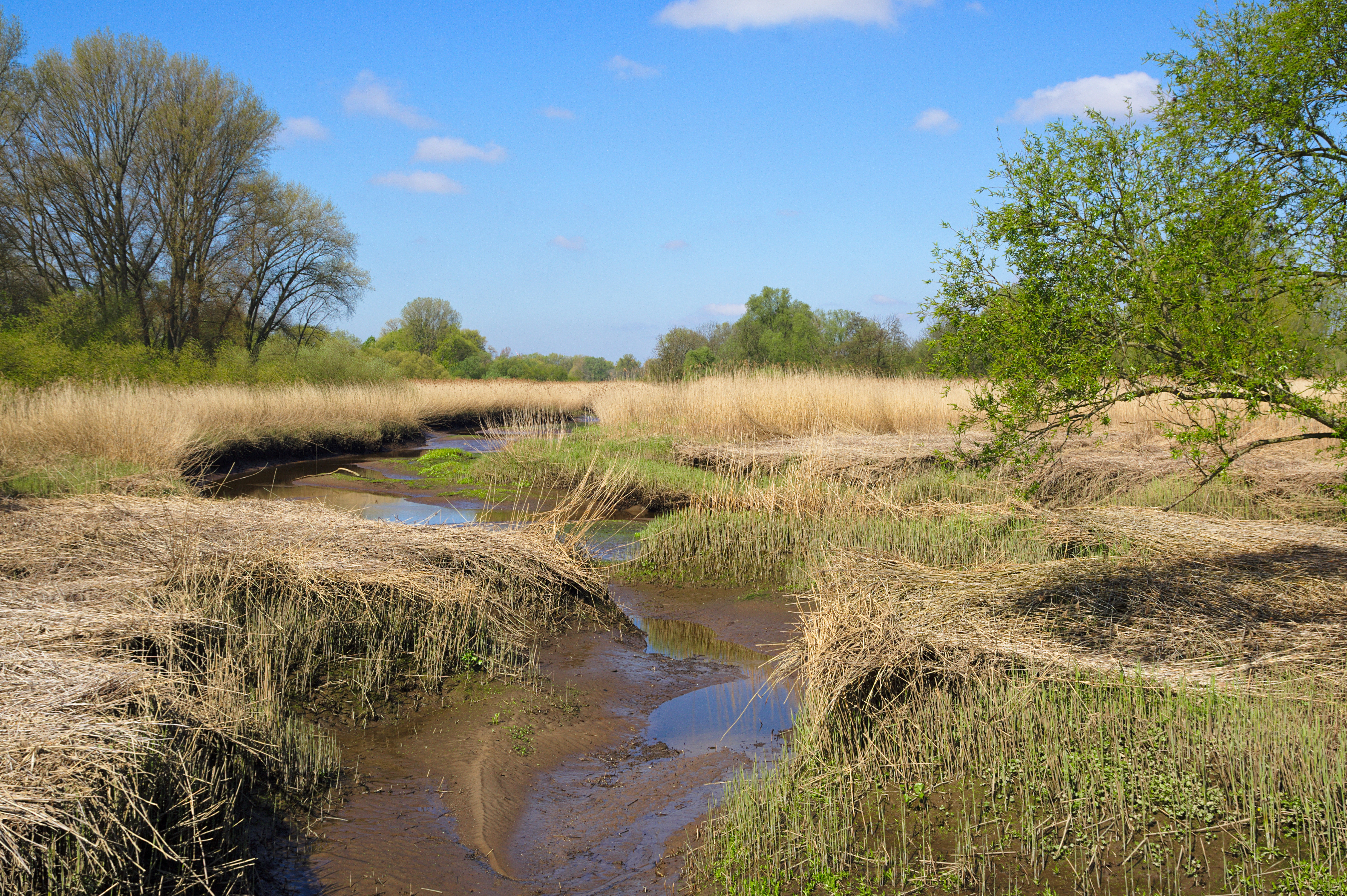 Freshwater mudflat – "Heuckenlock" nature reserve at the Elbe during low tide, Hamburg, Germany